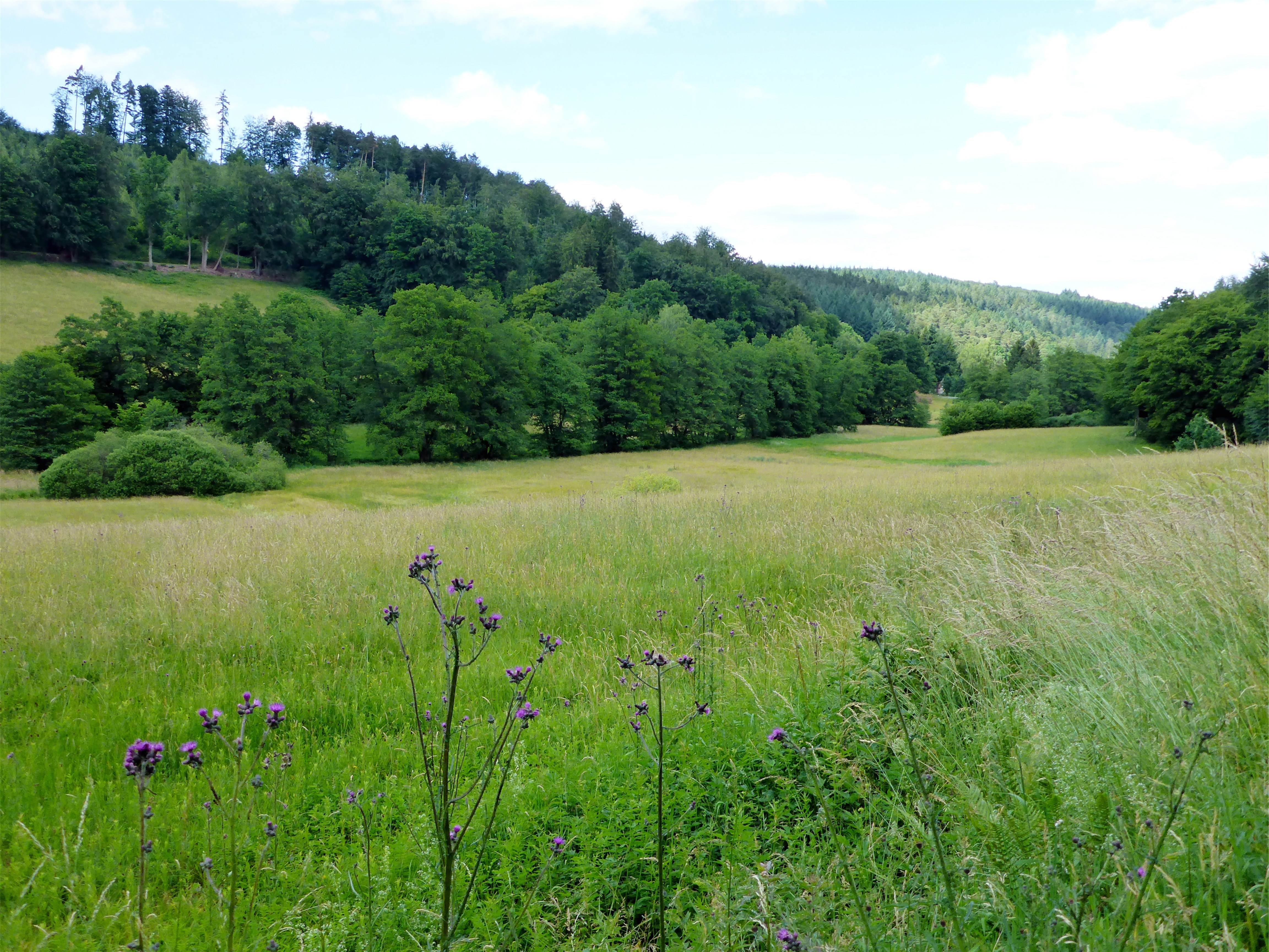 Naturschutzgebiet „Albtal und Seitentäler“ is a nature reserve in Baden-Württemberg, Germany.